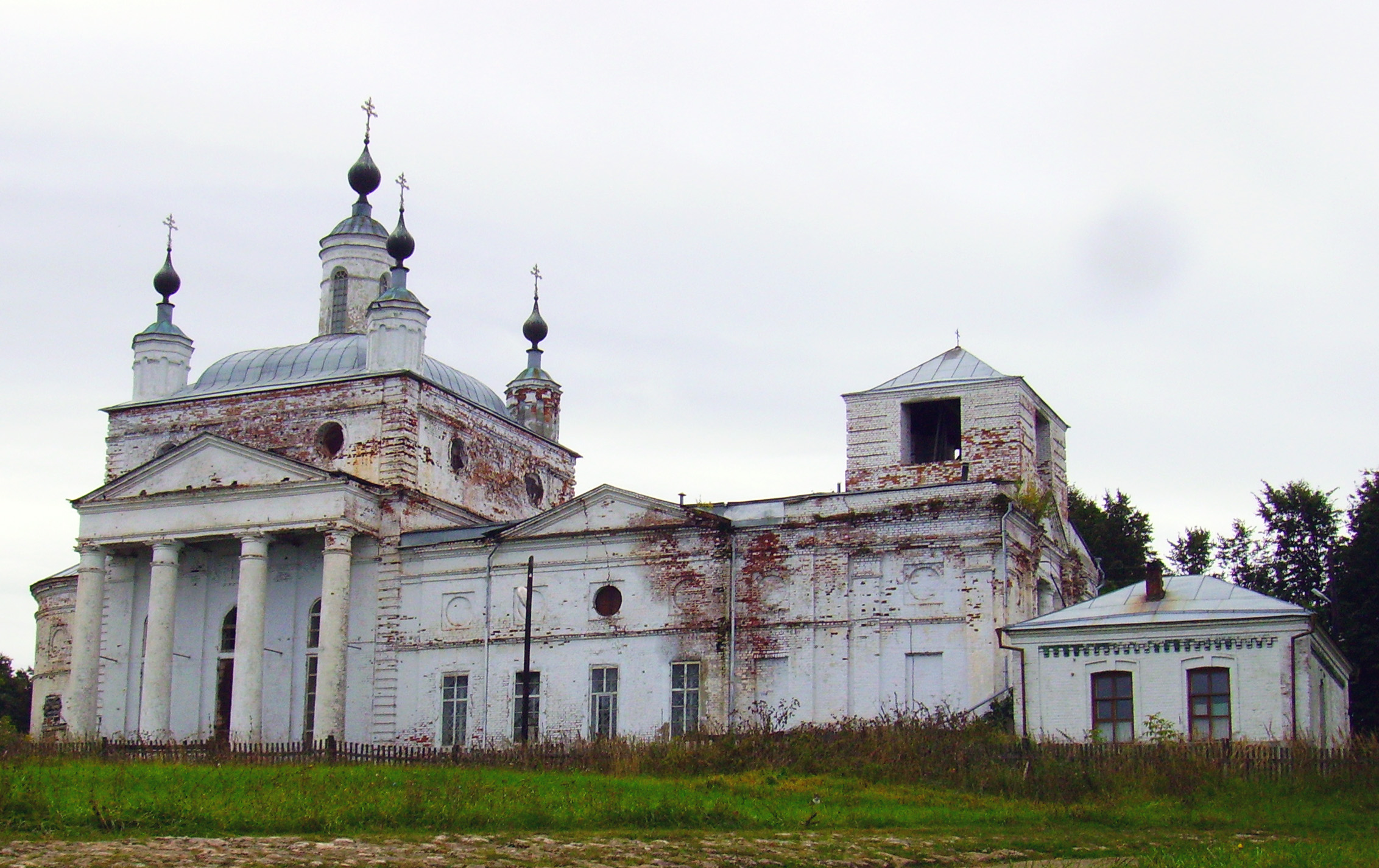 Holy Trinity Church in Gorbatov, Nizhny Novgorod Oblast.